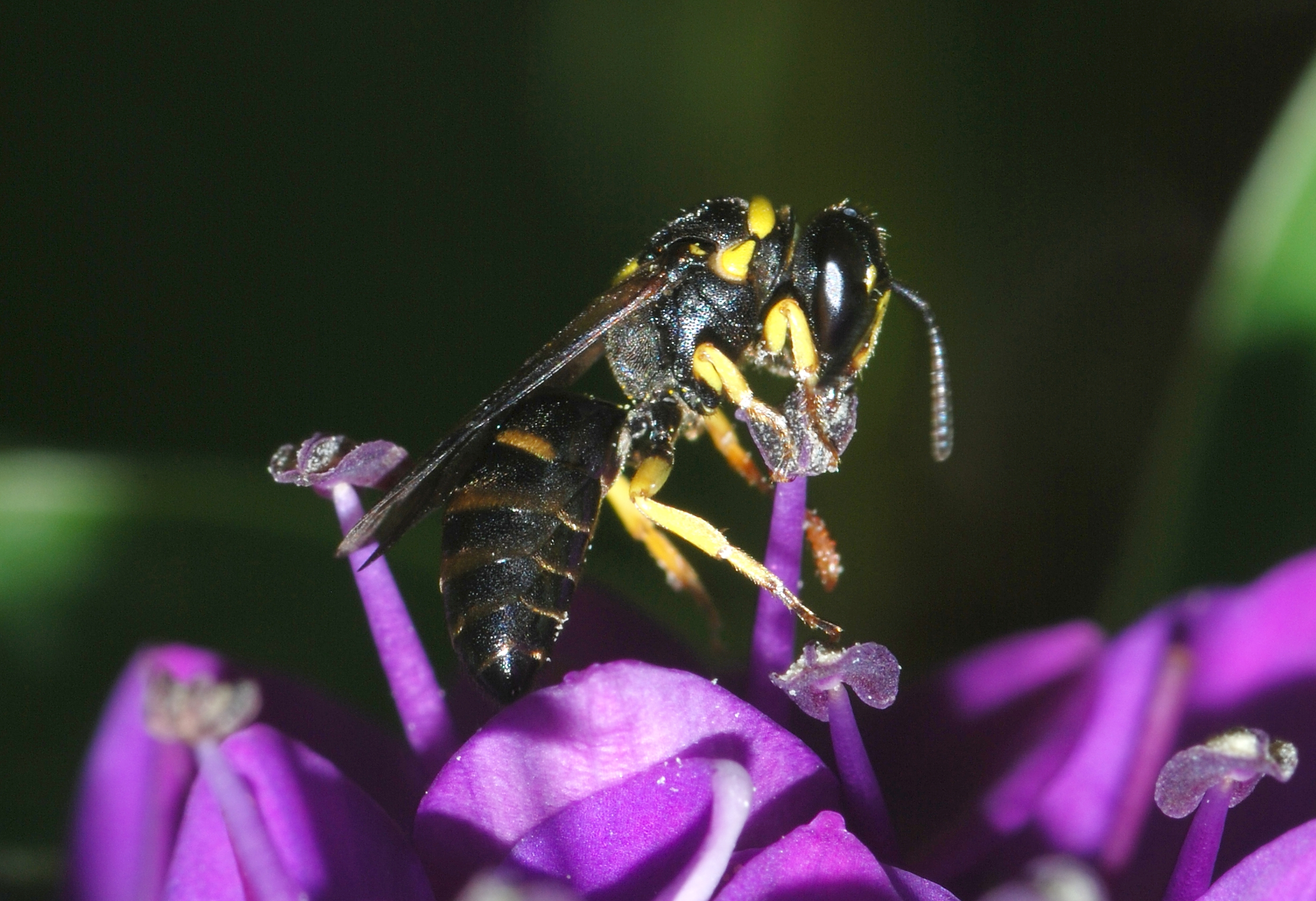 A male bee of the Colletidae family: Hylaeus sp.